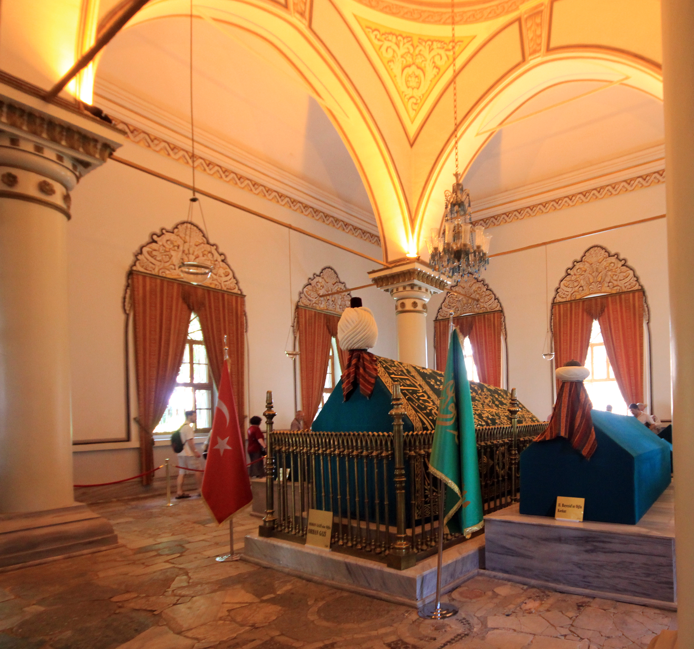 The tomb the second Osman sultan Orhan I. in Bursa city, Turkey